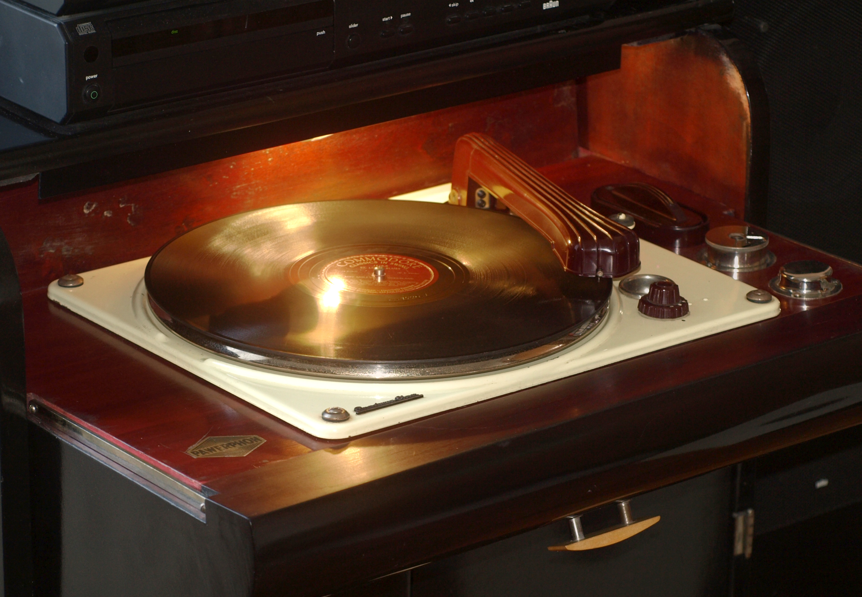 Perpetuum-Ebner PE38 turntable in a Pawerphon cabinet. Perpetuum-Ebner was a German company, traced back to 1911, that began turntable production in 1931 and went down in 1974 [1]. In the 21st century the brand was revived by WE Audio Systems for their middle-of-the-line hi-fi turntables. Pawerphon was a cabinet maker, selling radios and TVs fitted with other makers' electronics - 1930s to early 1960s [2].